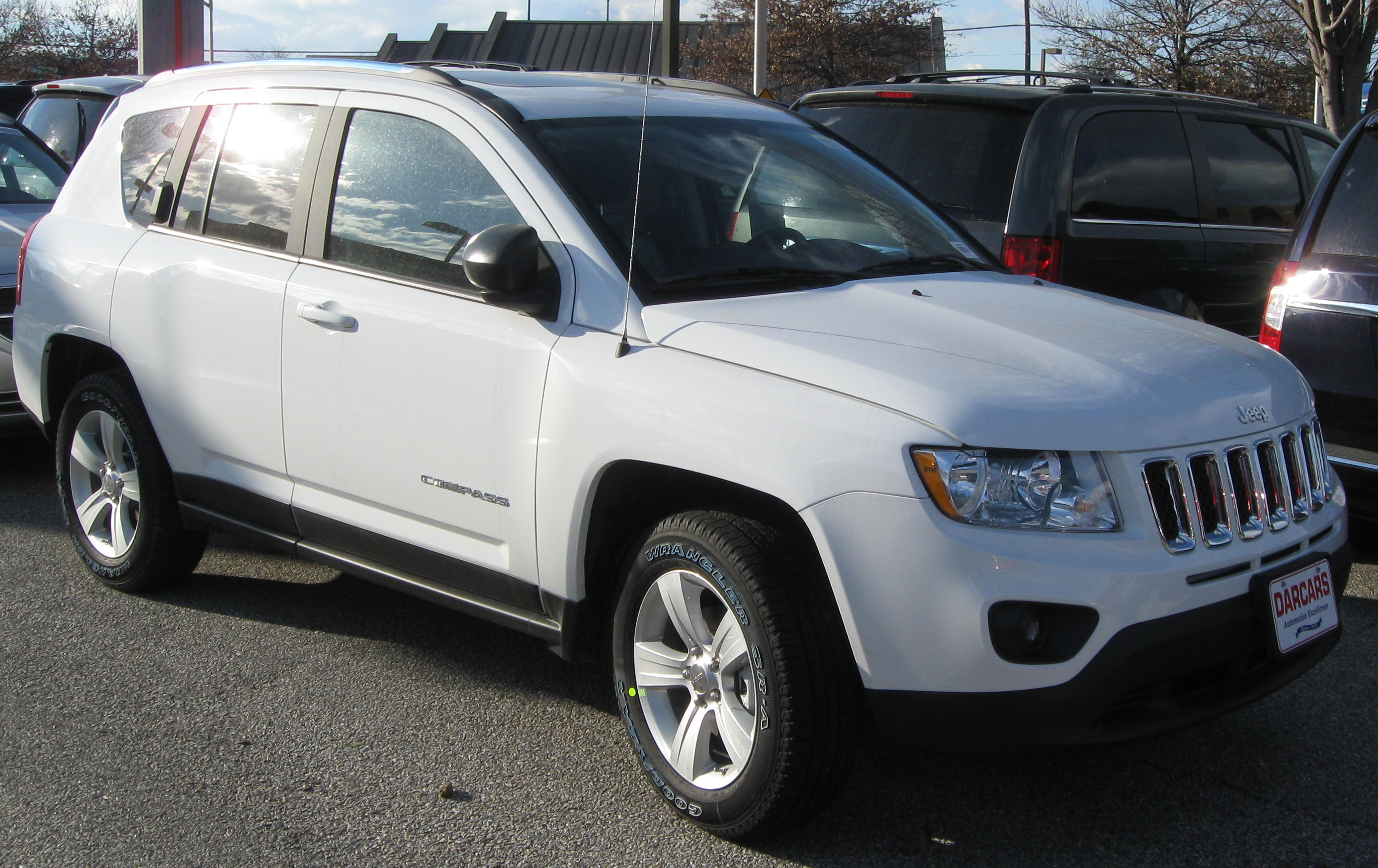 2011 Jeep Compass photographed in Silver Spring, Maryland, USA.